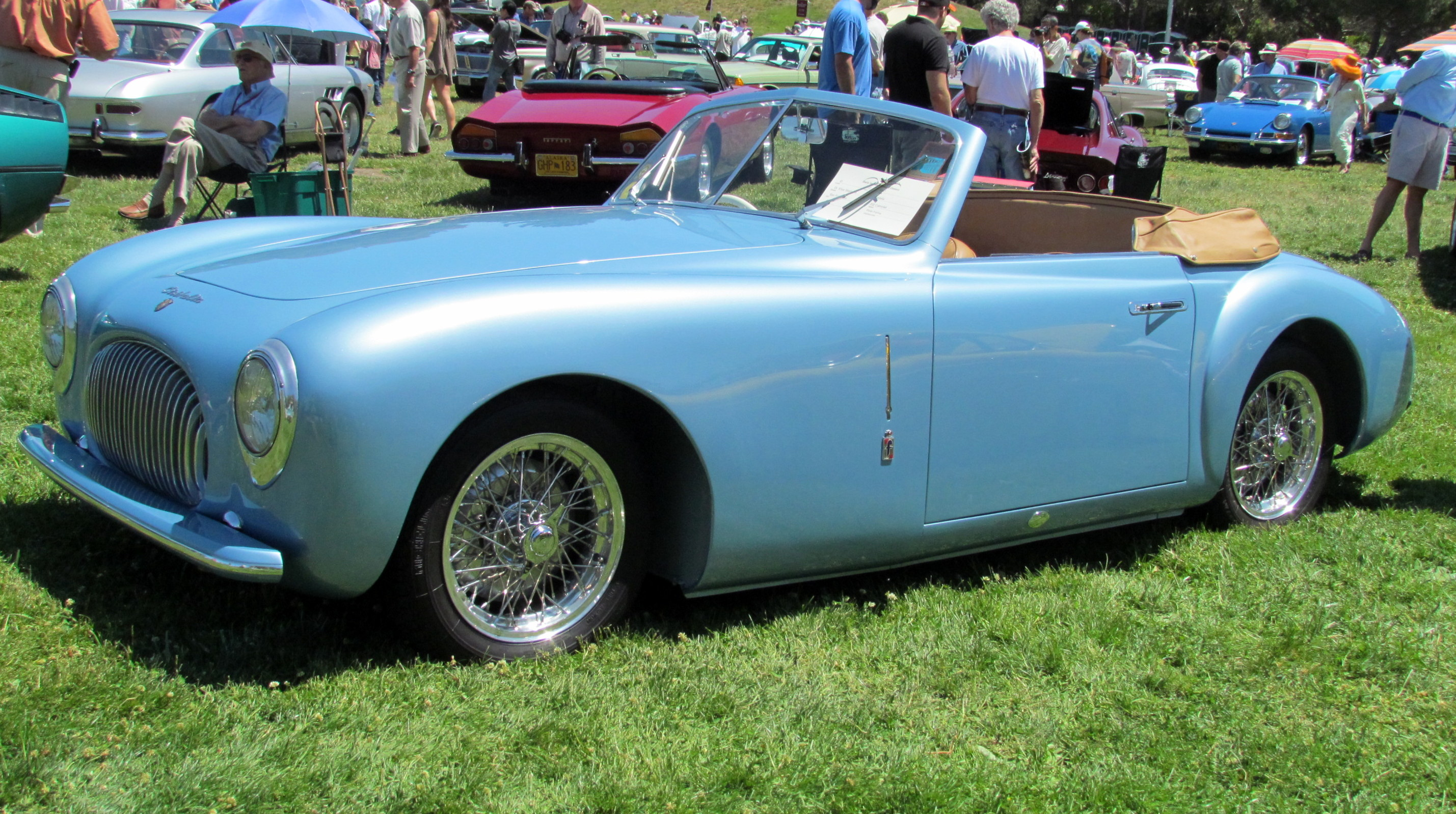 Once owned by Juan & Isabel Peron of Argentina Photographed at Marin-Sonoma Concours d'Elegance 2012.